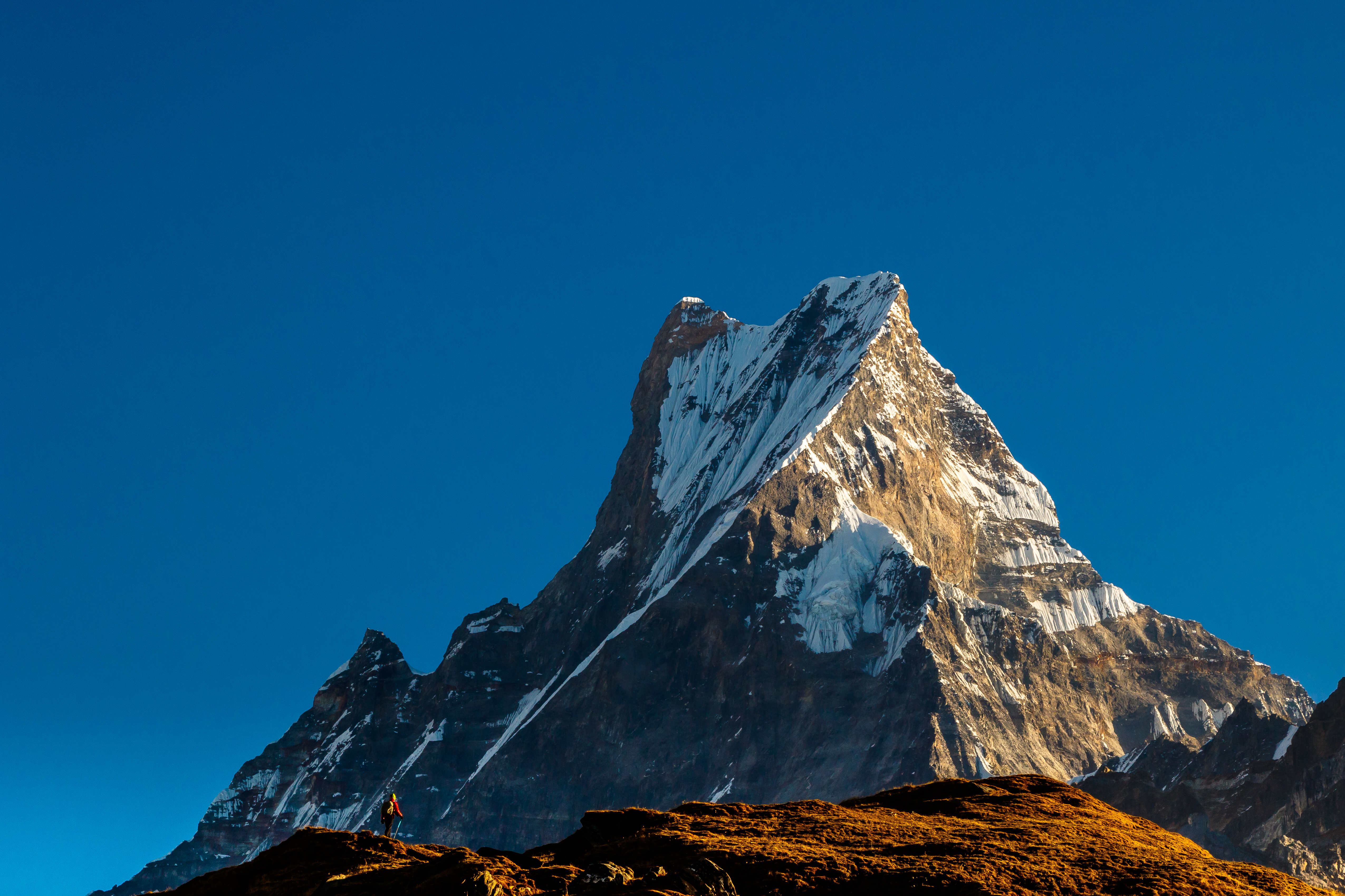 Machhapuchhre is a mountain situated in the Annapurna massif of Gandaki Pradesh, north-central Nepal.